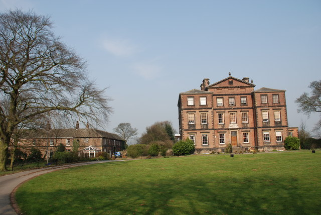 Tong Hall, near Bradford Now a conference centre.